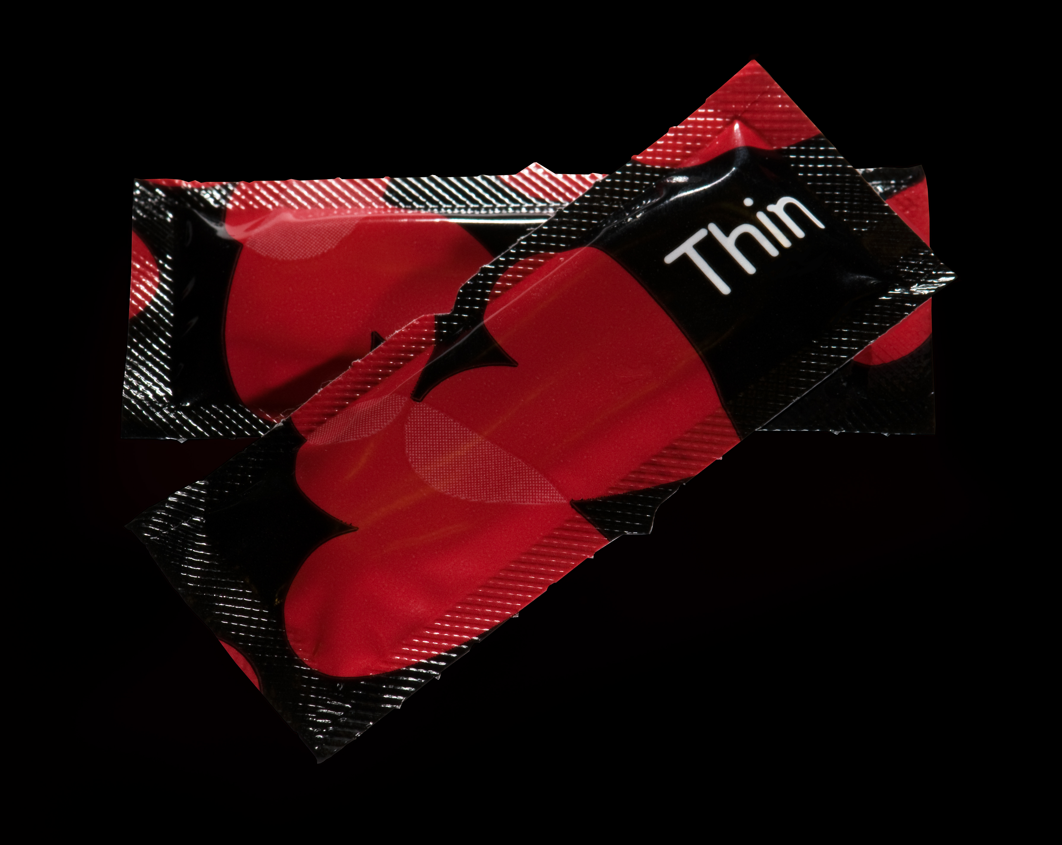 Dark protection